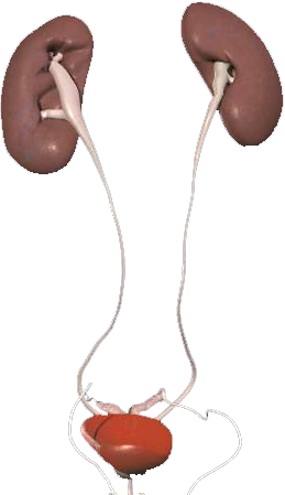 U System